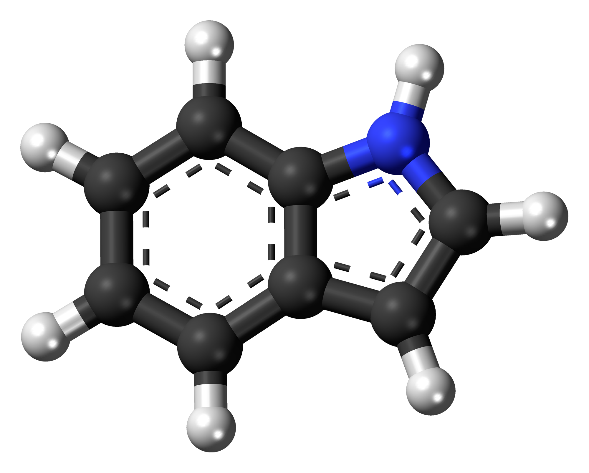 Ball-and-stick model of the indole molecule, a nitrogen heterocycle and a simple aromatic ring. The indole group occurs widely in other compounds. Colour code: Carbon, C: black Hydrogen, H: white Nitrogen, N: blue